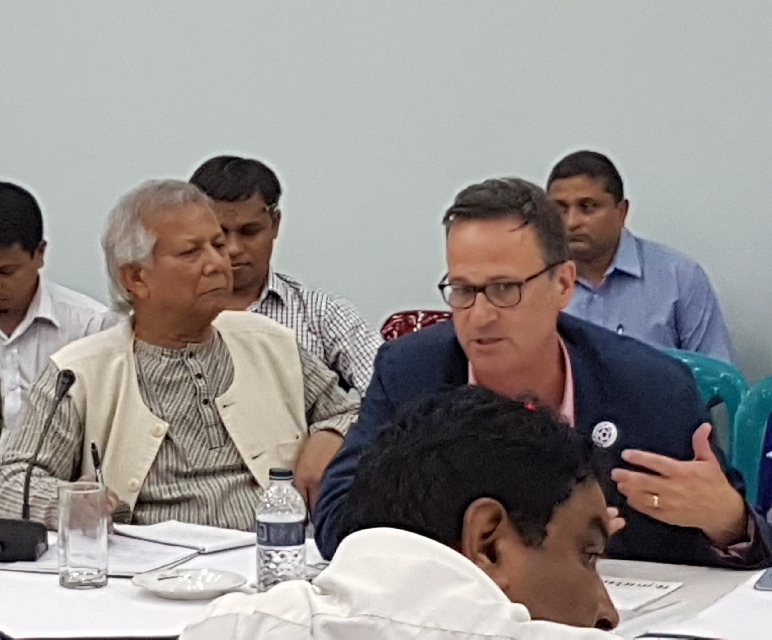 Cam Donaldson (with Nobel Laureate, Dr Muhammad Yunus) in Dhaka, July 2017